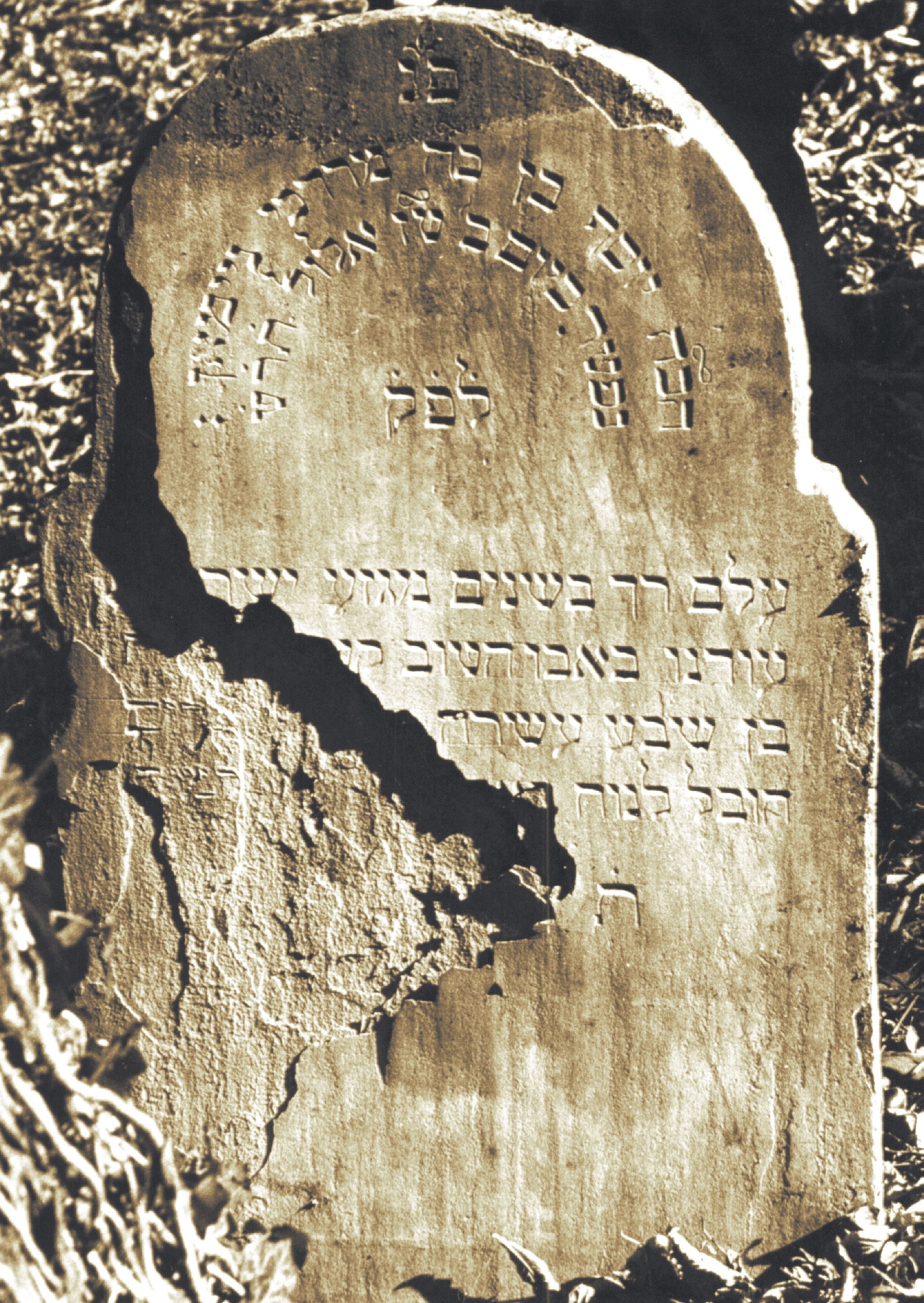 The oldest tombstone in Jewish cemetery in Bielsko-Biała. Josef Neumann d. 1849